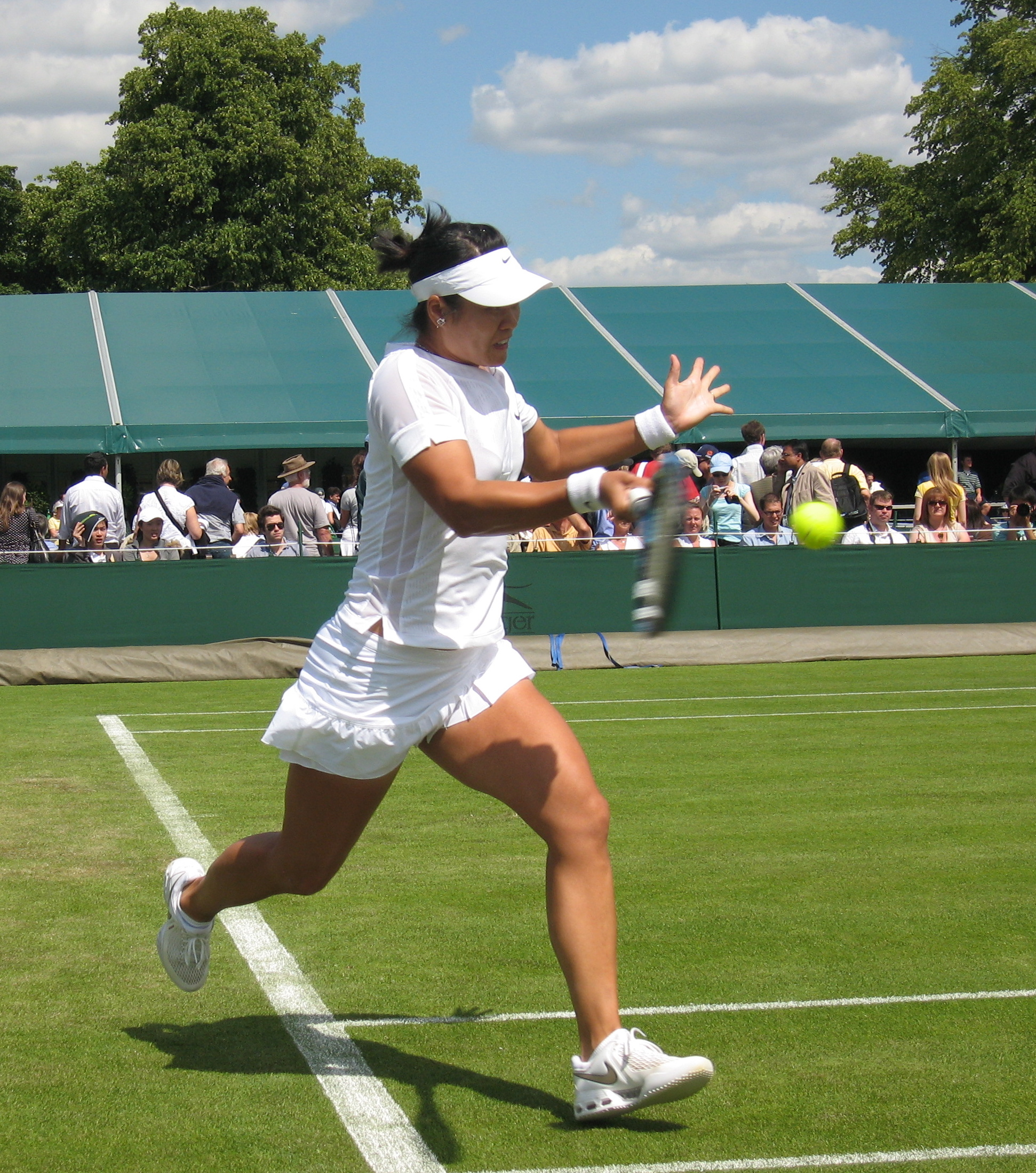 Li Na hitting a forehand at Wimbledon 2008 1st round against Anastasia Rodionova